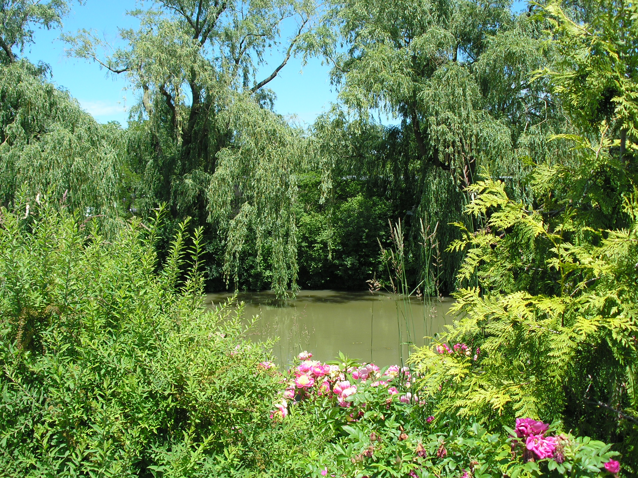 Inside the Chicago Botanic Garden; view of a lake and flora